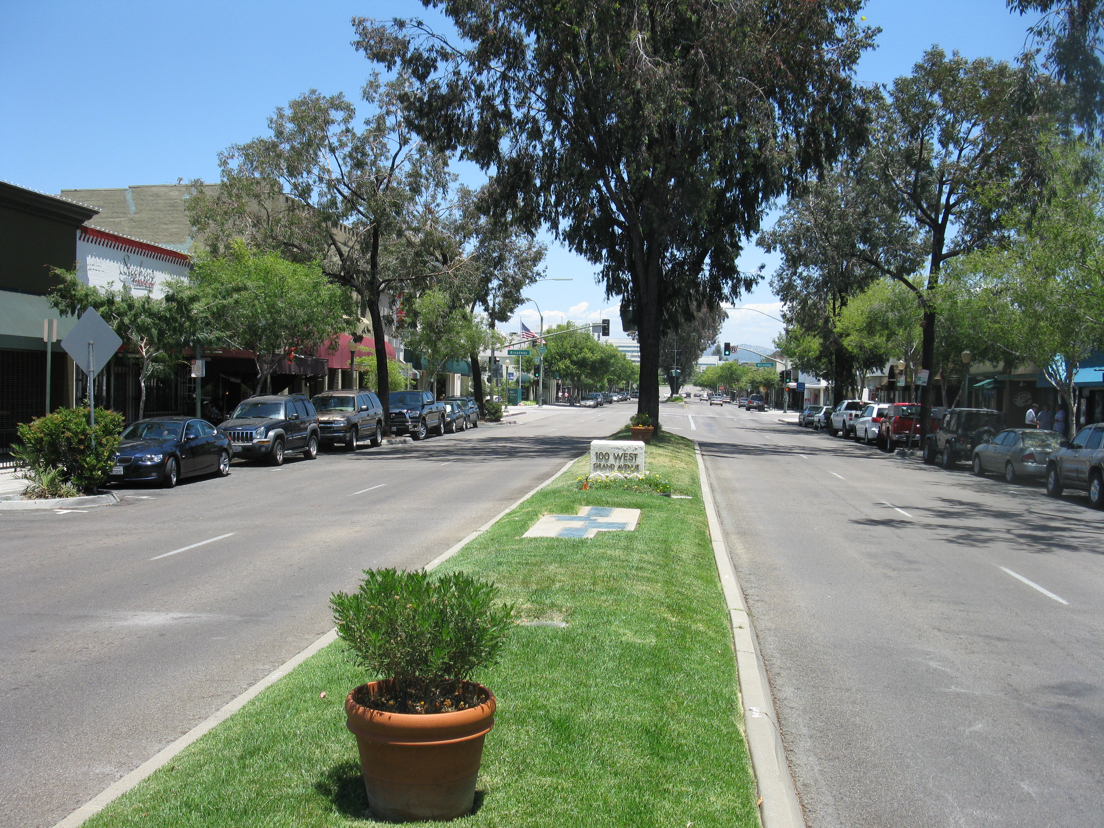 Photo taken by Chris Doig on June 13, 2010.